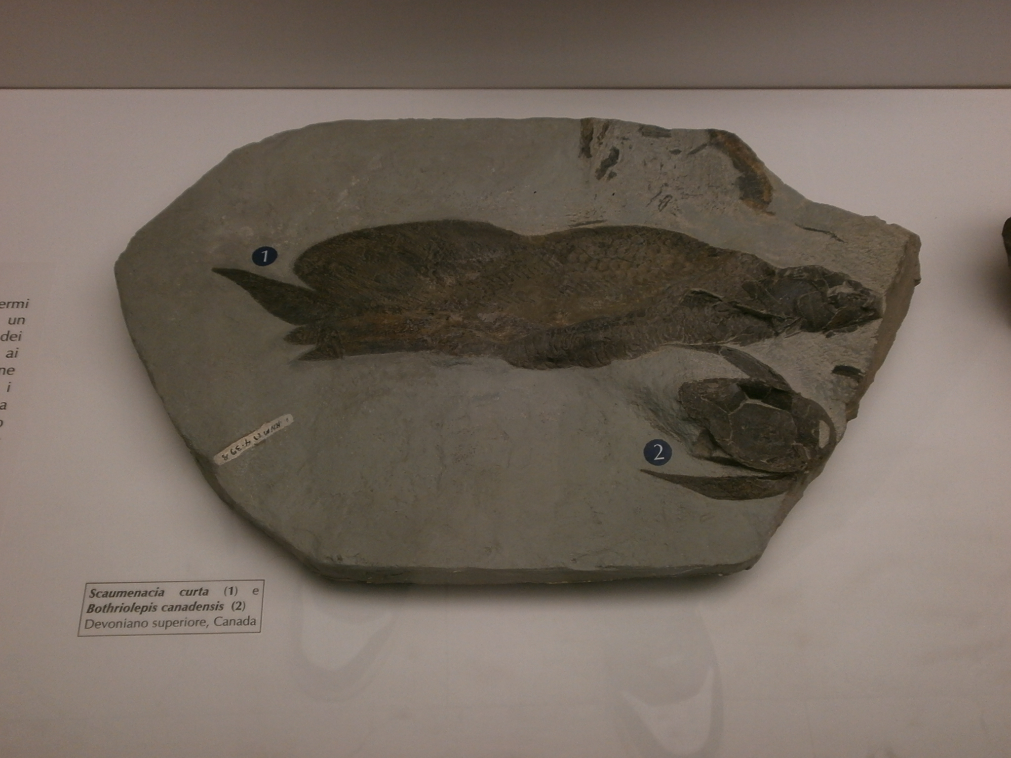 Scaumenacia cyrta & bothriolepis canadensis (from Canada) - Devonian fossil - Museum of Natural History of Milan